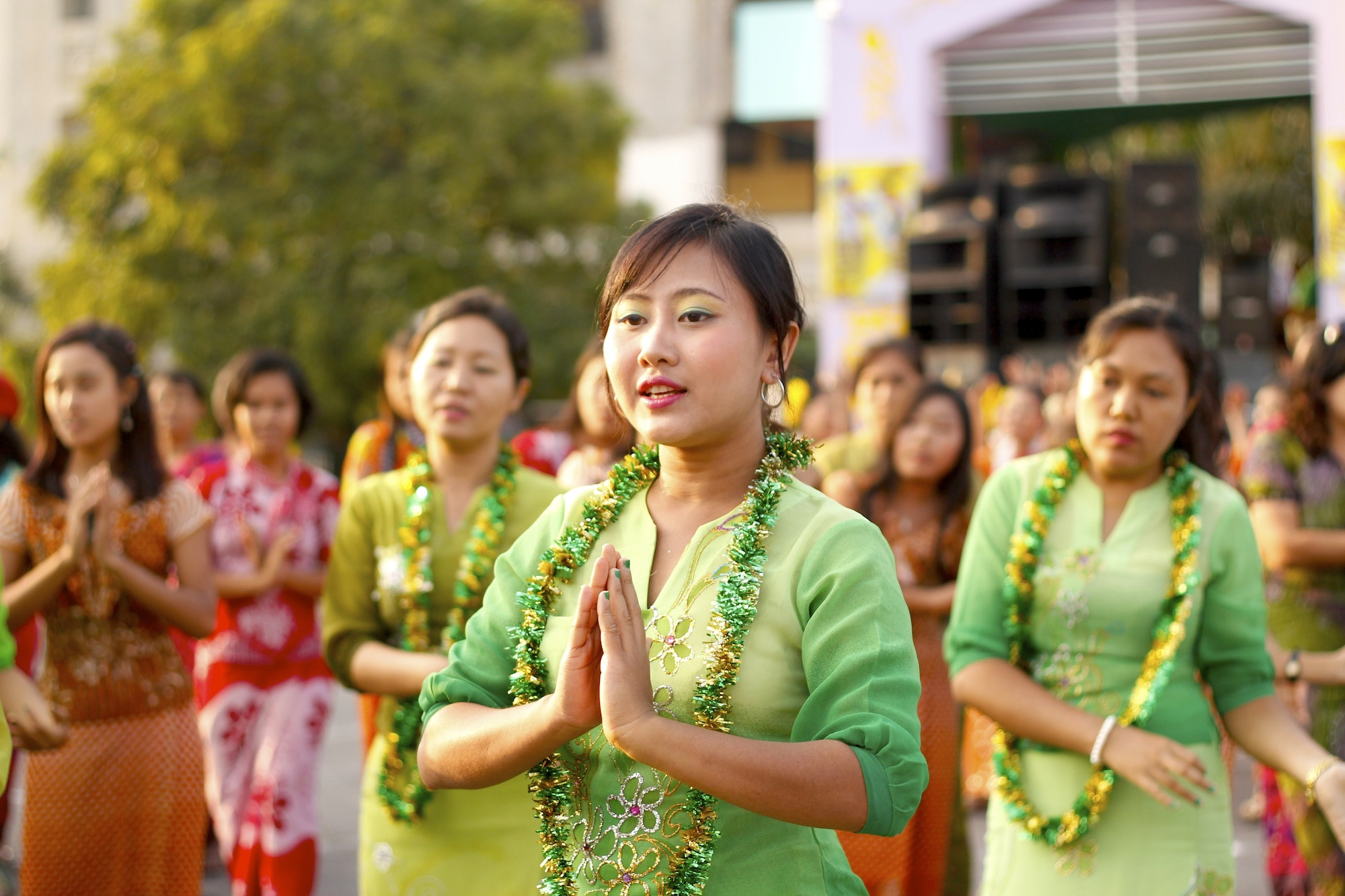 Burmese women perform traditional dance during closing ceremony of Myanmar New Year Water Festival 2011 in Yangon, Myanmar on 16 April 2011. မြန်မာဘာသာ: ၂၀၁၁ ခုနှစ် မြန်မာ နှစ်ကူးအတာသင်္ကြန် ပိတ်ပွဲတွင် အမျိုးသမီးလေးများ မြန်မာ့ရိုးရာ ယိမ်း အကဖြင့် ဖျော်ဖြေနေသည်ကို မြန်မာနိုင်ငံ၊ ရန်ကုန်မြို့တွင် ဧပြီလ ၁၆ ရက် ၂၀၁၁ ခုနှစ်က တွေ့ရစဉ်